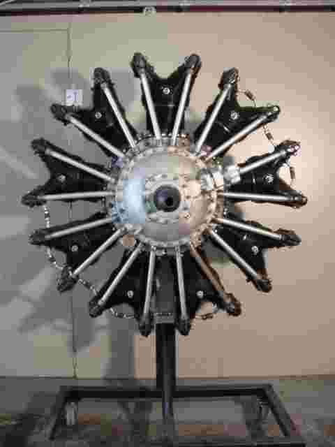 A Pratt & Whitney R-1340 Wasp 9-cylinder radial engine